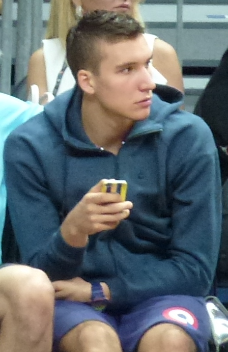 Fenerbahçe Women's Basketball - Nadezhda Orenburg 2015-16 EuroLeague Women semi final on 15 April 2016 in Ülker Sports Arena